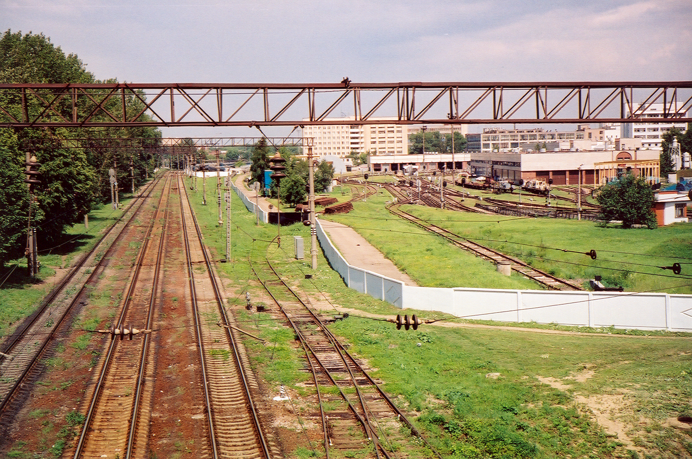 "Moskovskoye" depot of Minsk metro (Belarus)